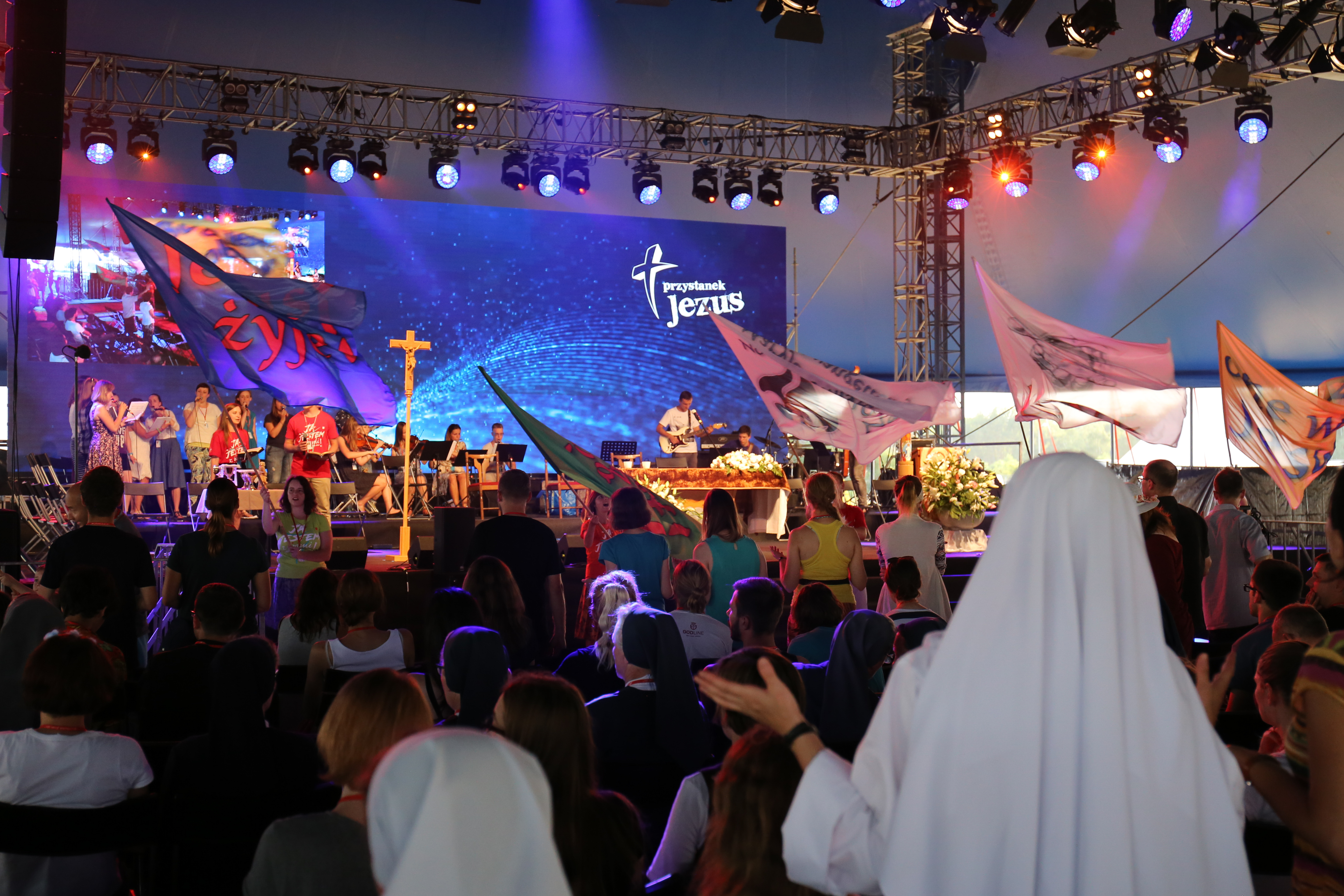 Przystanek Woodstock in 2017.